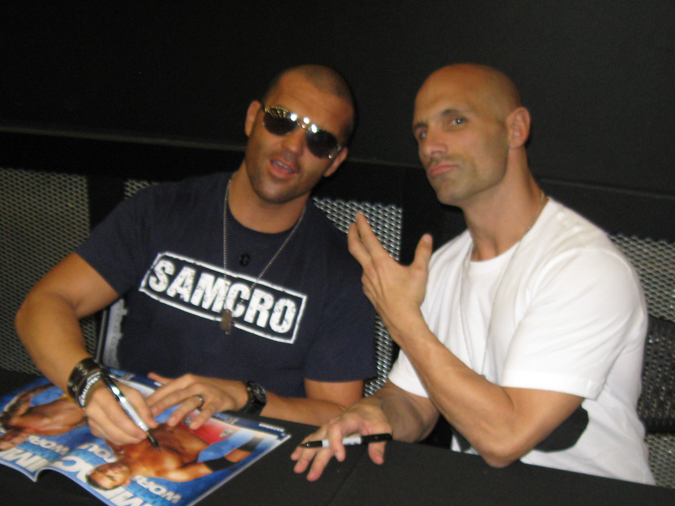 Kaz & Daniels signing at a Meet & Greet before the iMPACT! Wrestling event 9-15-12 @ the Sands Event Center in Bethlehem, PA.